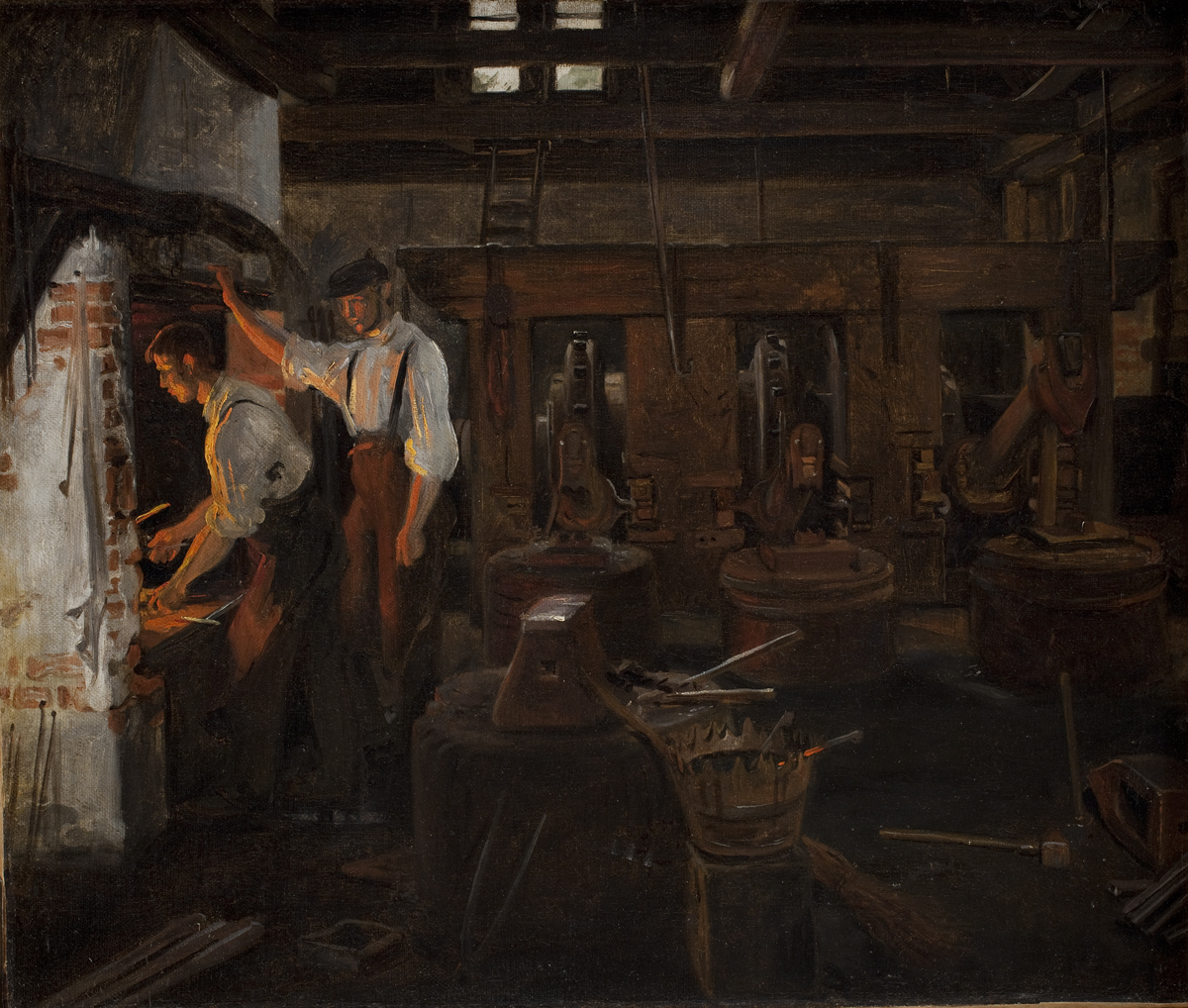 The interior of the old Hammermølle water mill at Hellebæk north of Copenhagen in Denmark